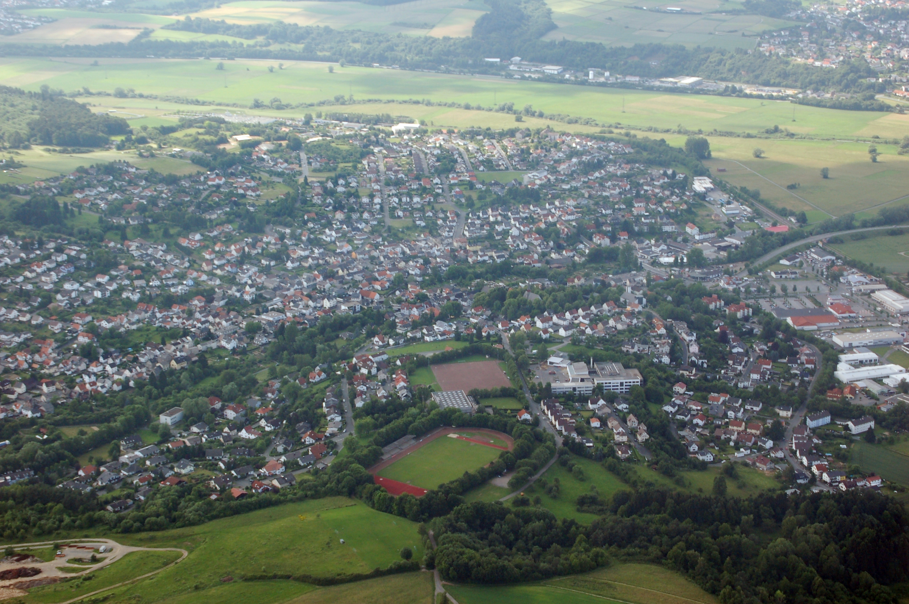 Aerial photograph of Burgsolms, Hessen, Germany